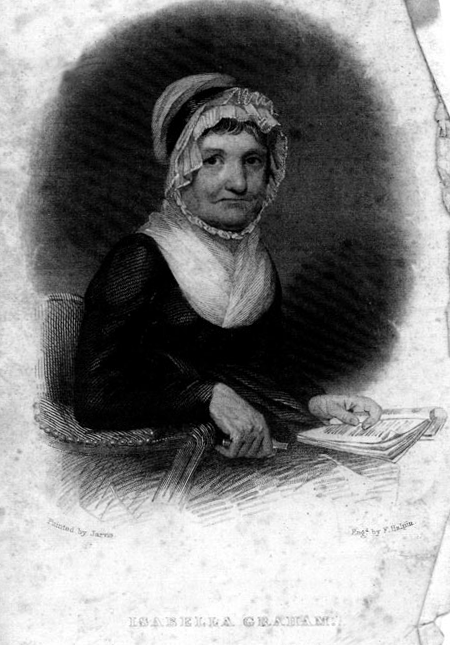 Portrait of Isabella Graham a 19th Century Diarist and religious author.